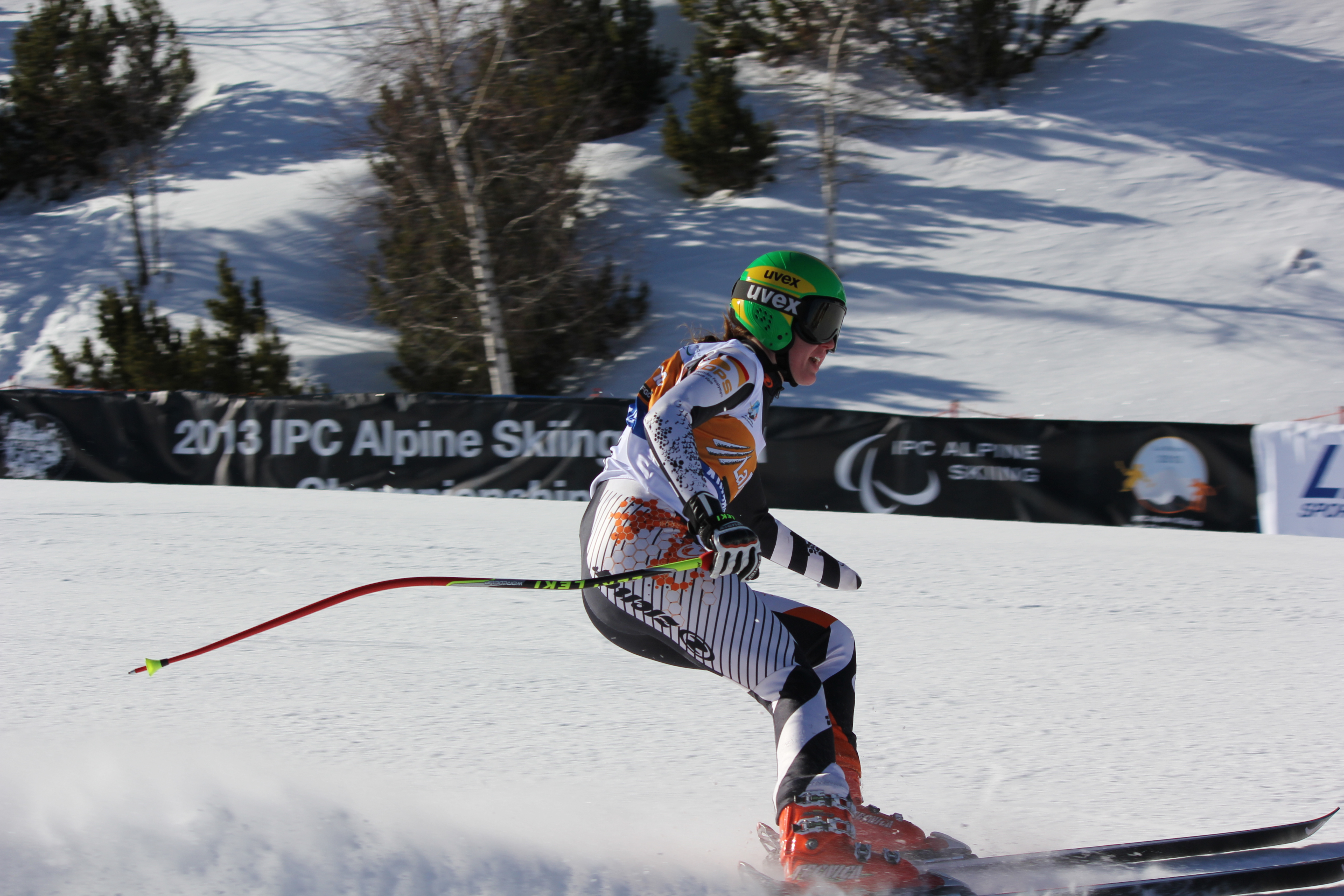 At the 2013 IPC Alpine World Championships in La Molina Spain. Downhill event. Women's standing group. Andrea Rothfuss of Germany